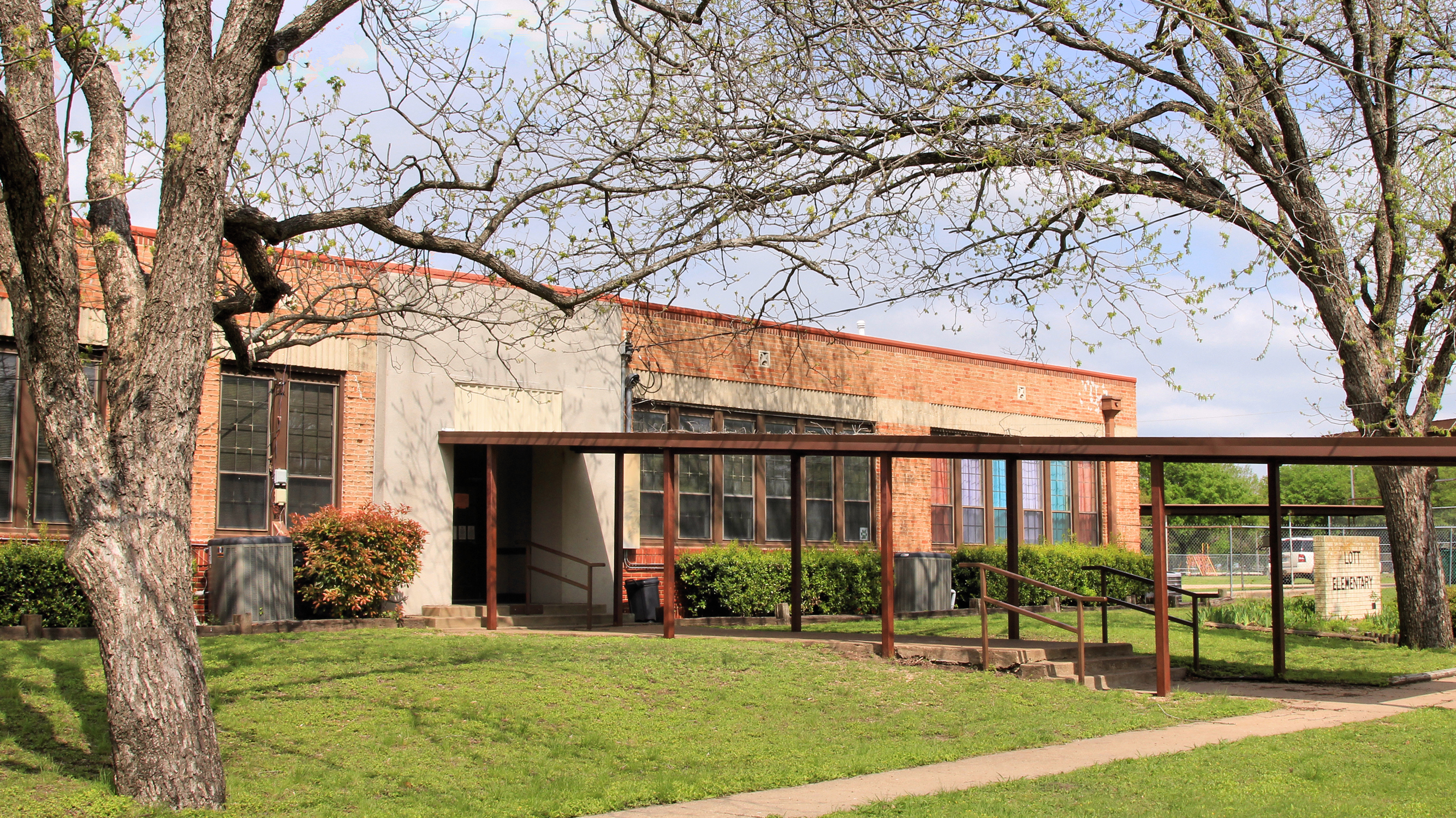 Lott Elementary School in Lott, Texas, United States